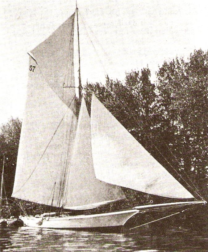 Boat for third place Turquoise at the 1900 Olympic Games photography, reproduction, no restrictions on use